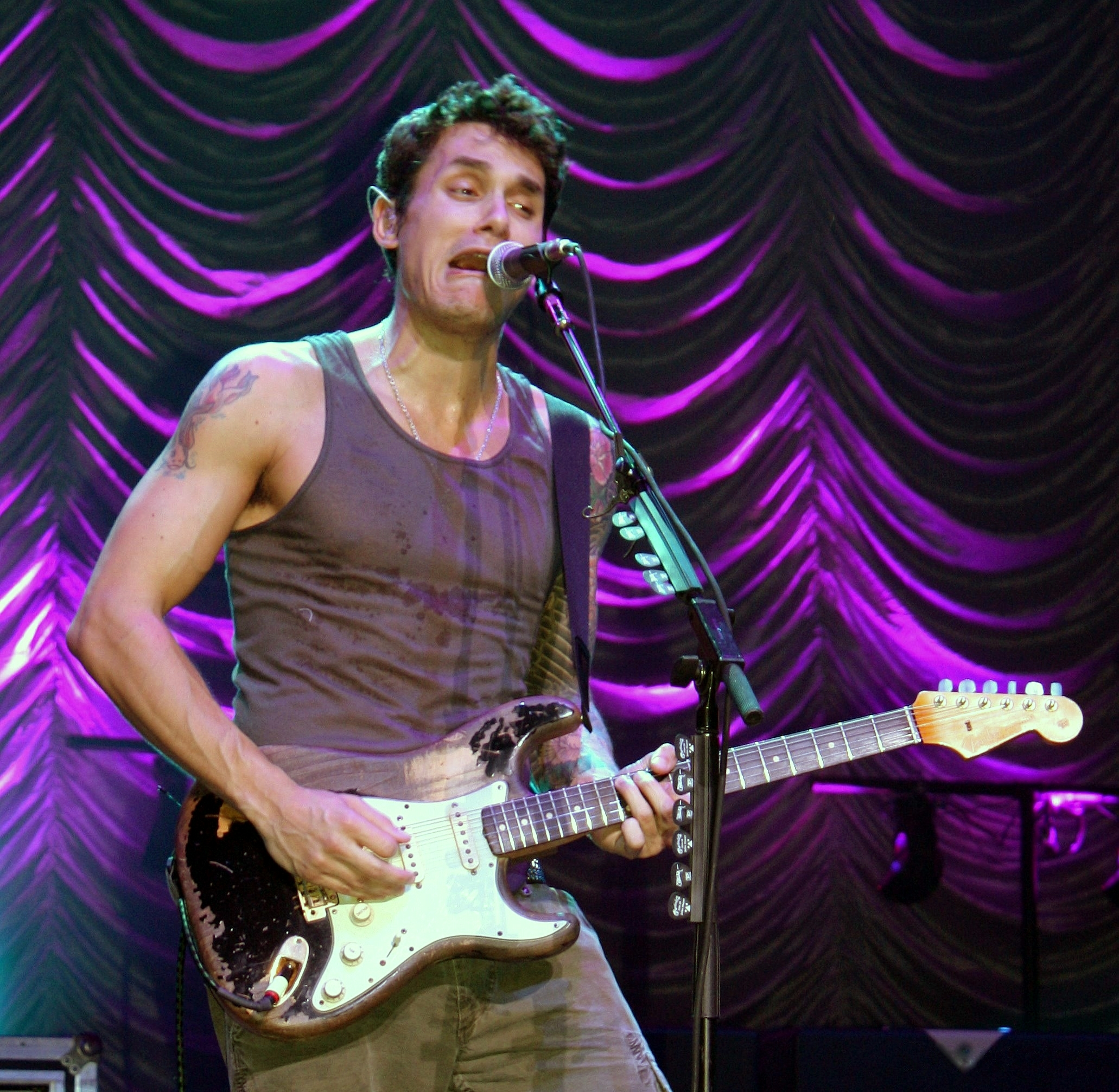 John Mayer on stage in Cleveland, OH. Summer Tour 2008, July 17